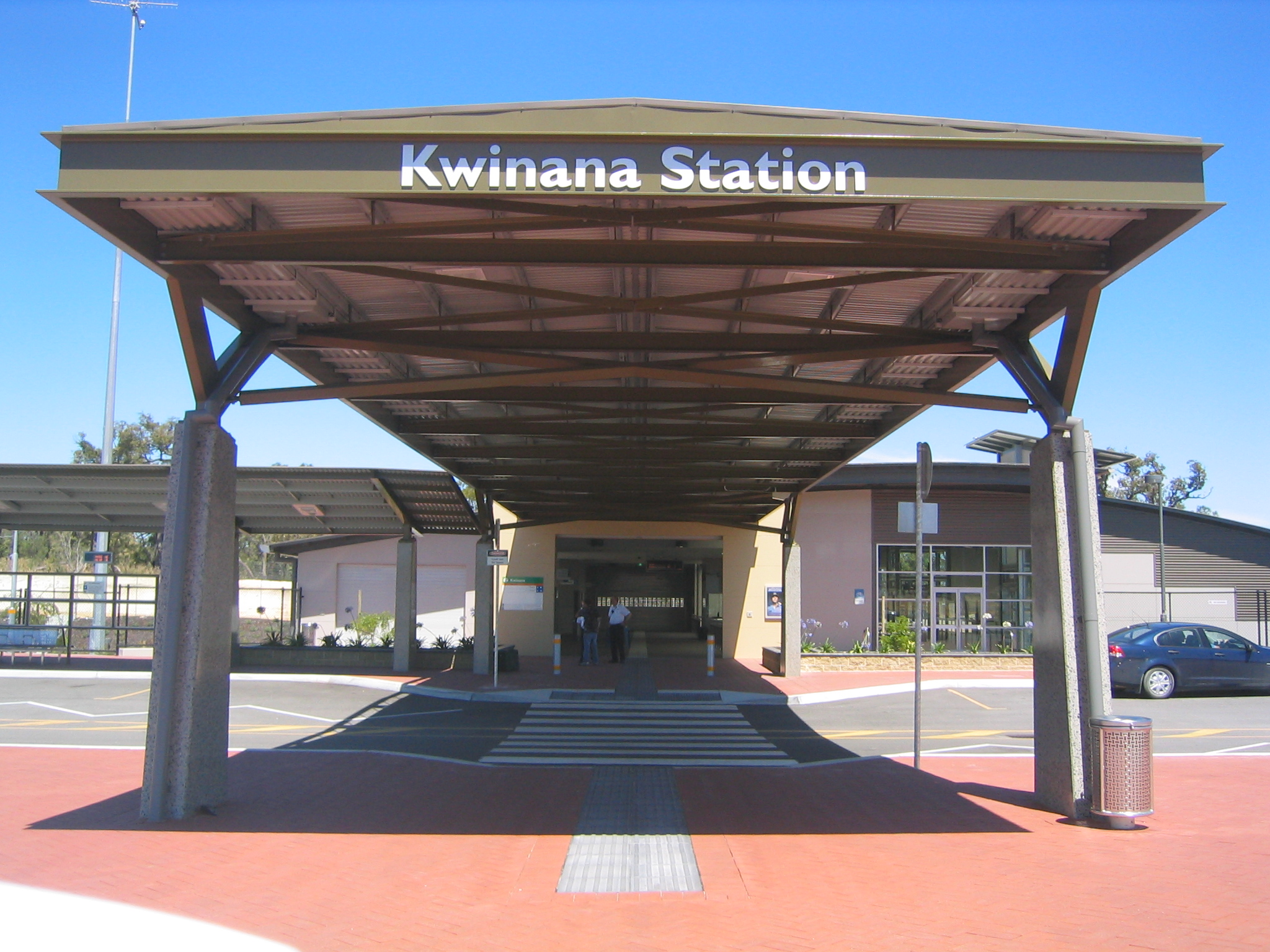 The entrance of Kwinana Station.